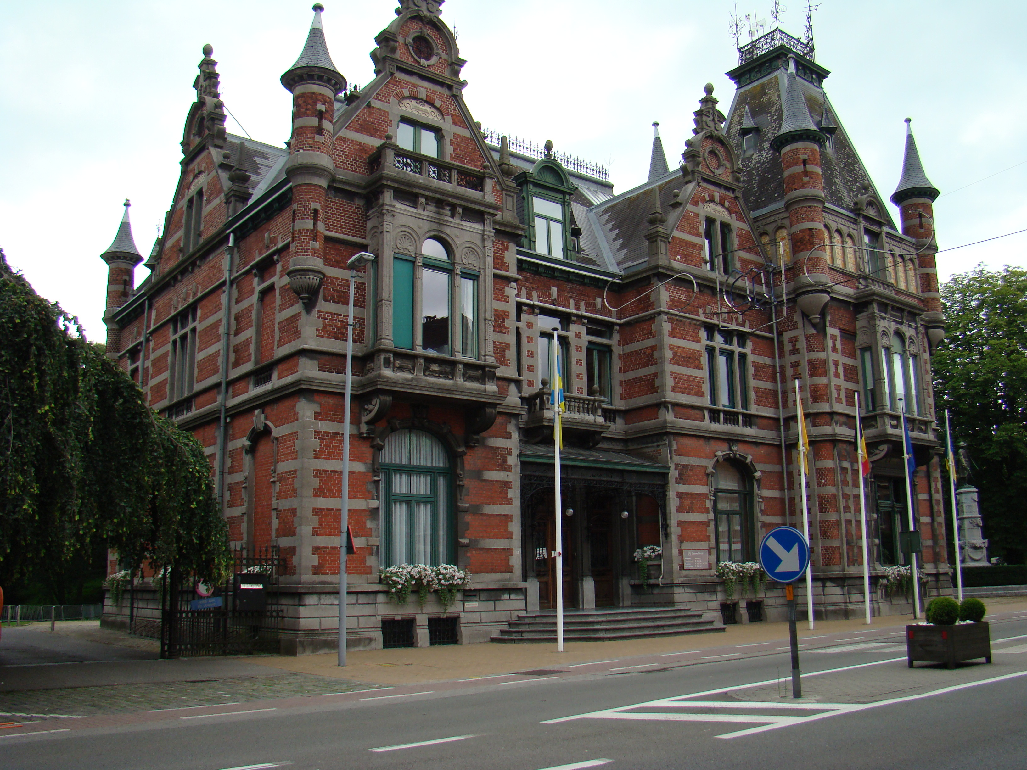 City hall, Wevelgem (West Flanders, Belgium)